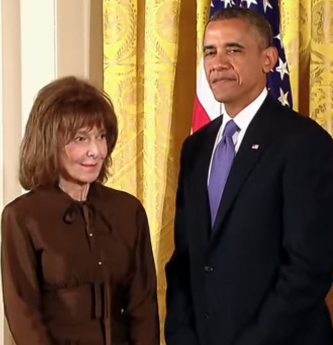 President Obama Awards 2012 National Medal of Arts and National Humanities Medal to Elaine May